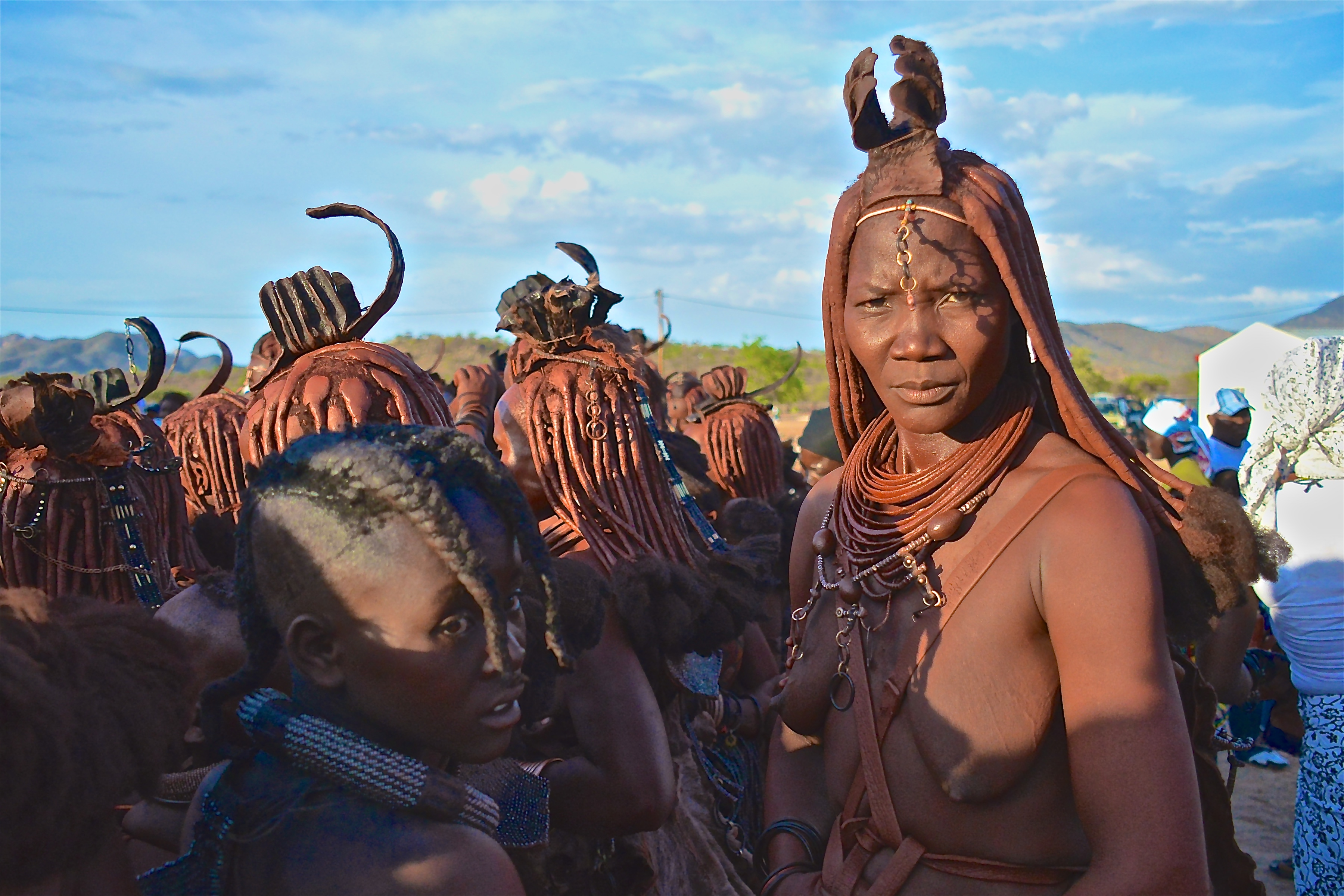 Himba's women in ceremony in ceremony, Namibe, Angola This is an image of "African people at work" from Angola